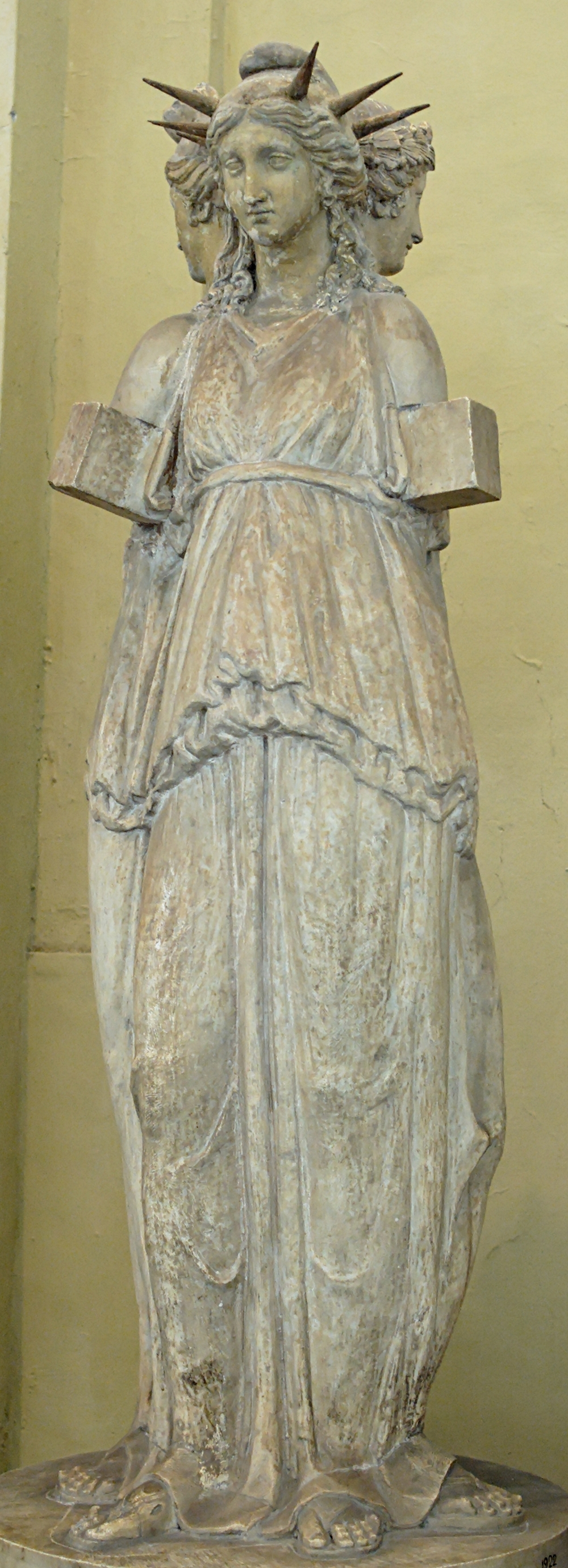 Triple-formed representation of Hecate. Marble, Roman copy after an original of the Hellenistic period.